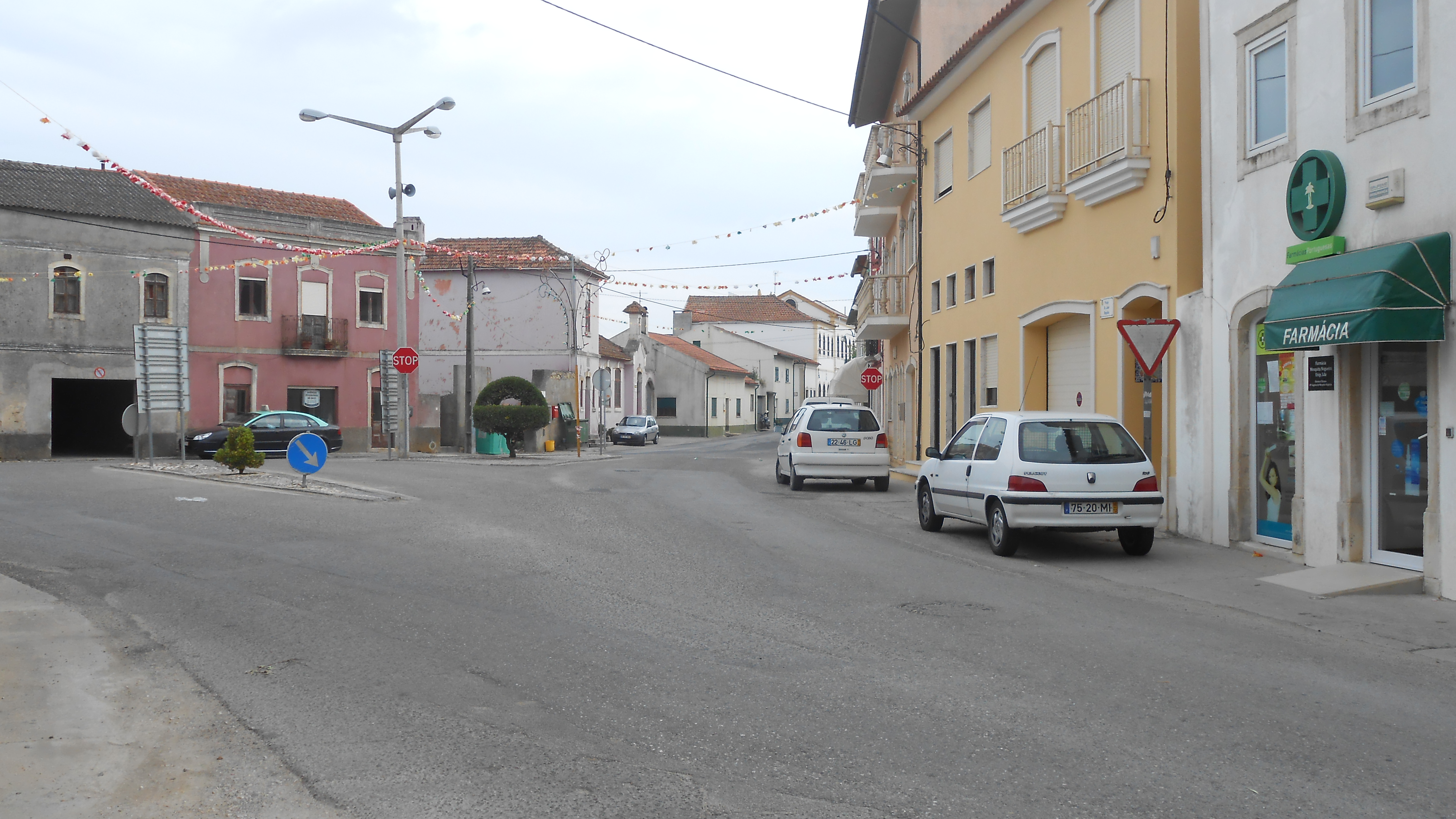 Streets crossing in the centre of Abrunheira, municipality of Montemor-o-Velho, district of Coimbra, Portugal.